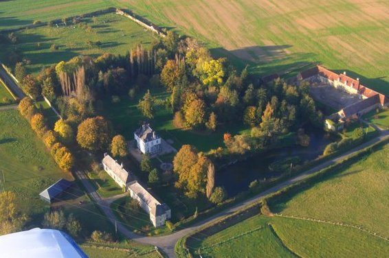 Aerial view of Chateau de la Motte looking north taken in summer.